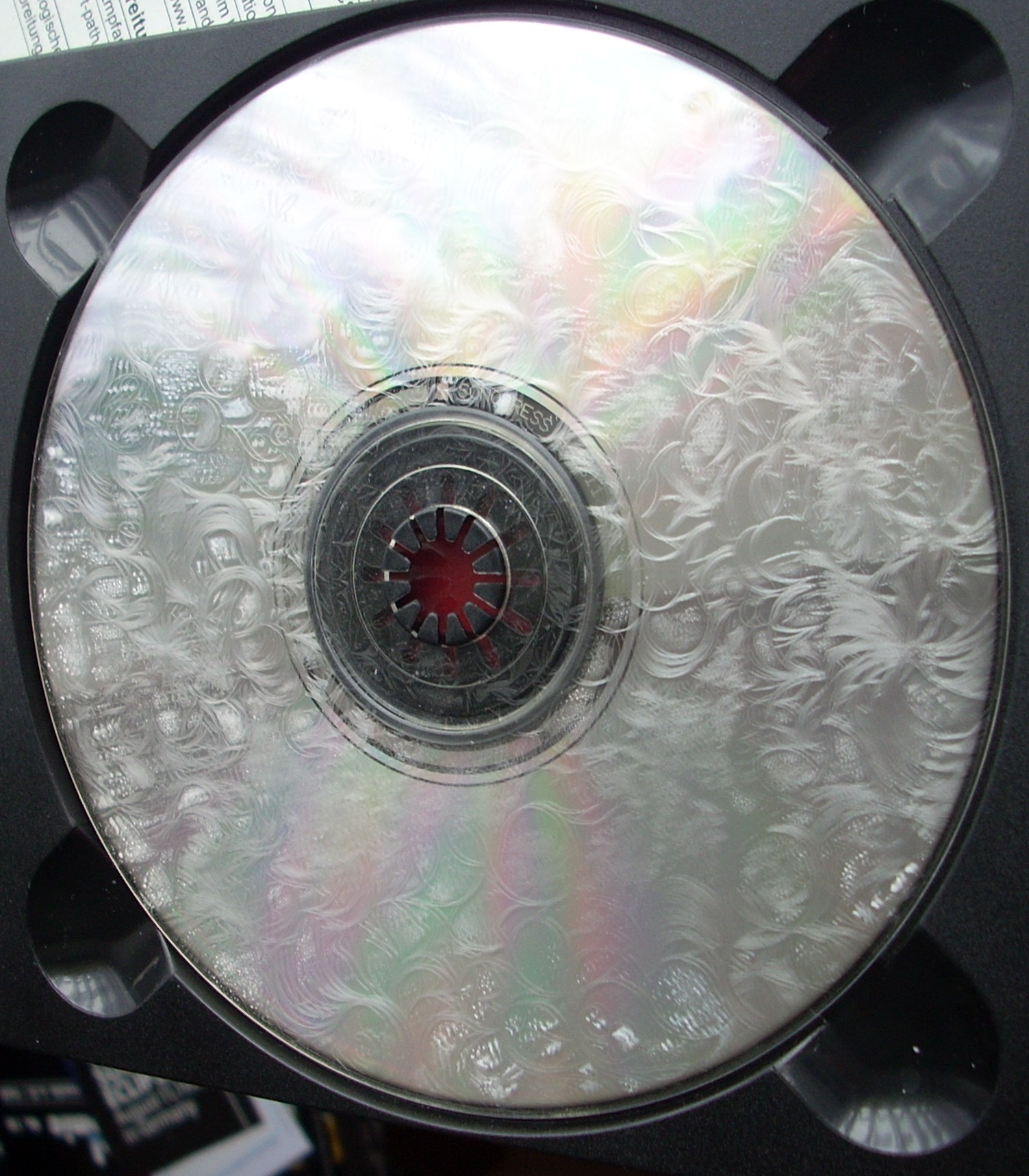 Corrosion of a Compact Disc (Depeche Mode - Condemnation, CD Bong 23, INT 826.765, Release year 1993)